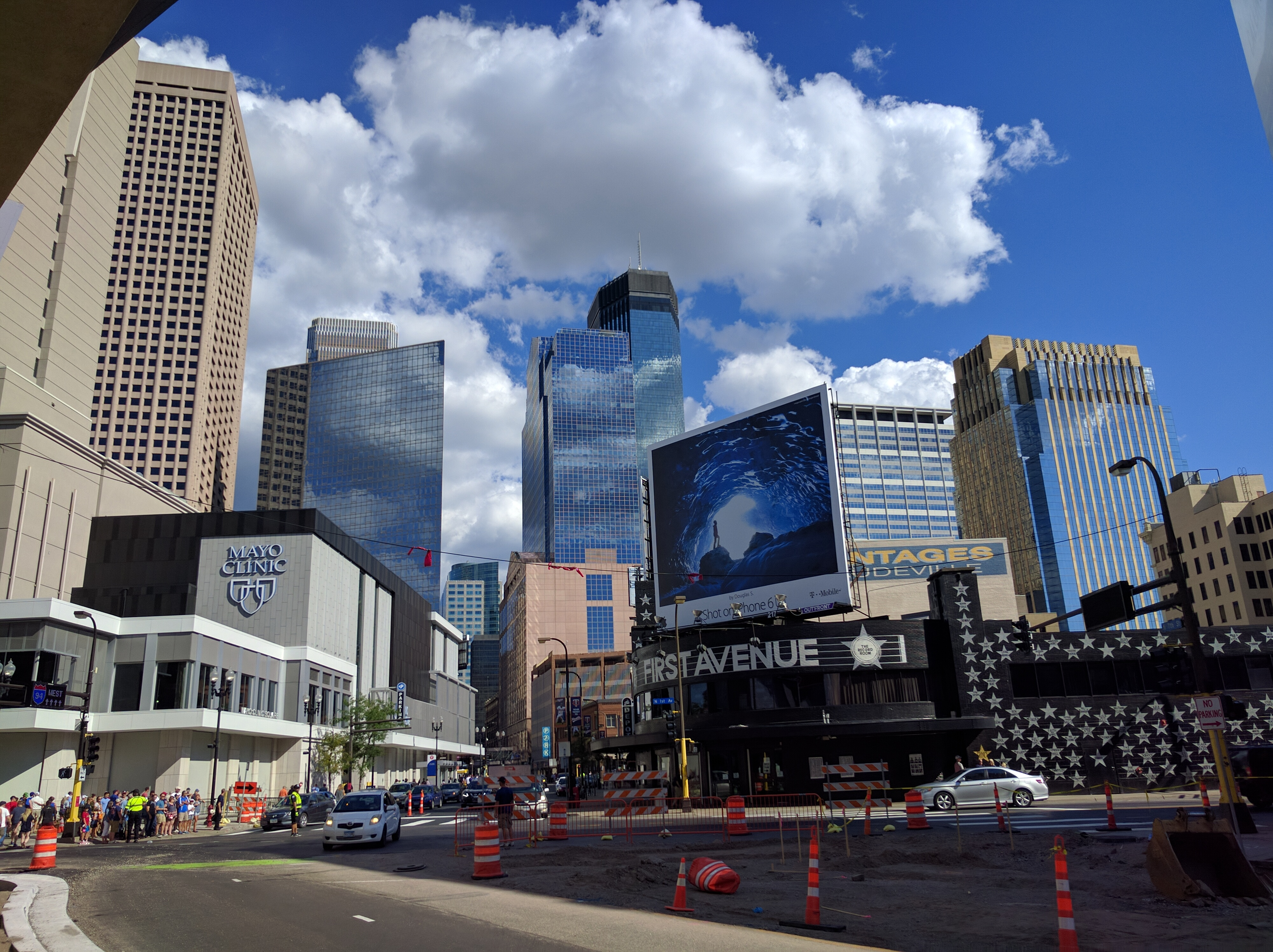 downtown Minneapolis, Minnesota